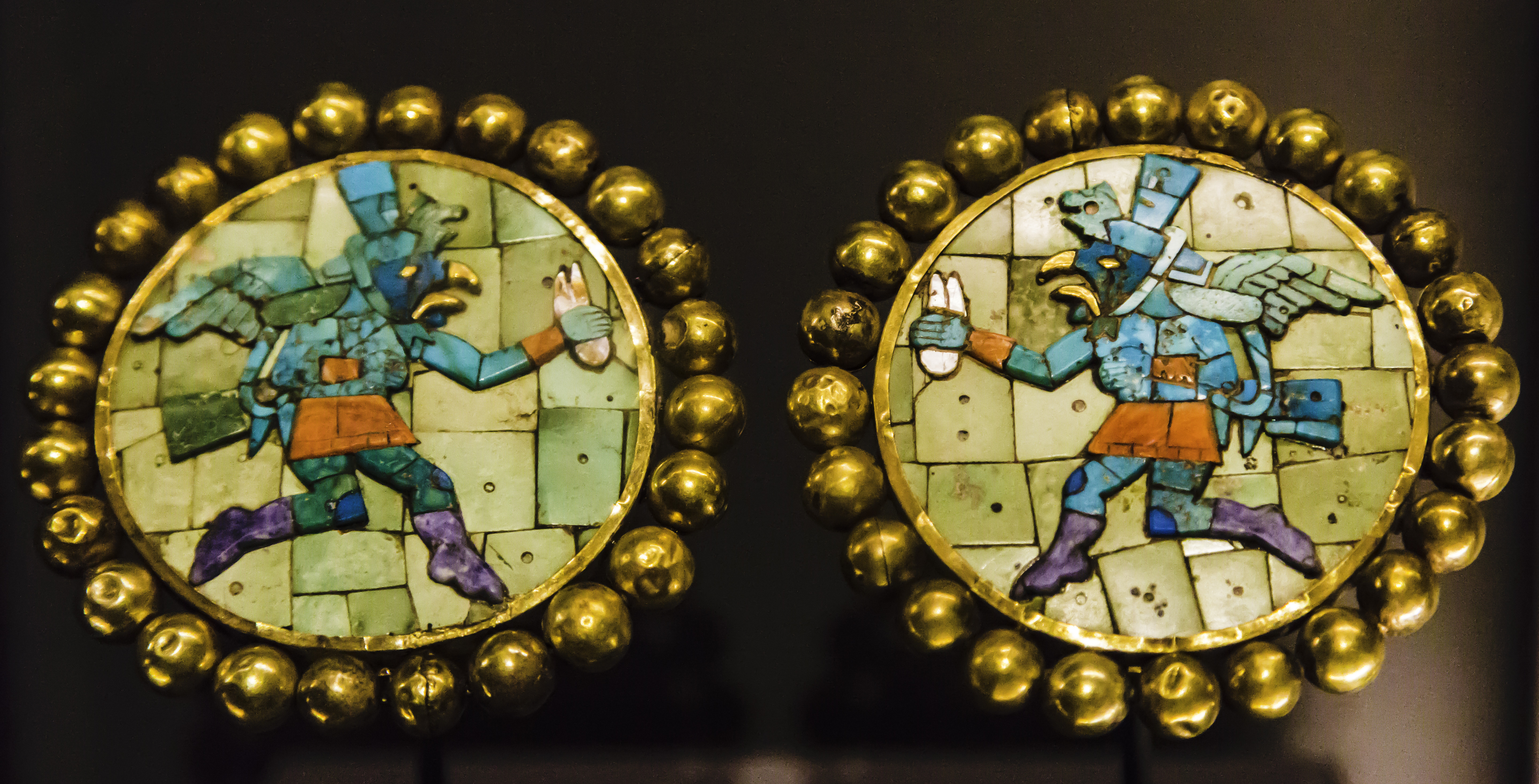 A pair of ear ornaments from Peru (Moche), ca. AD 200-600 Gold; shell; stome (turquoise or malachite) The Getty Center in Los Angeles, California